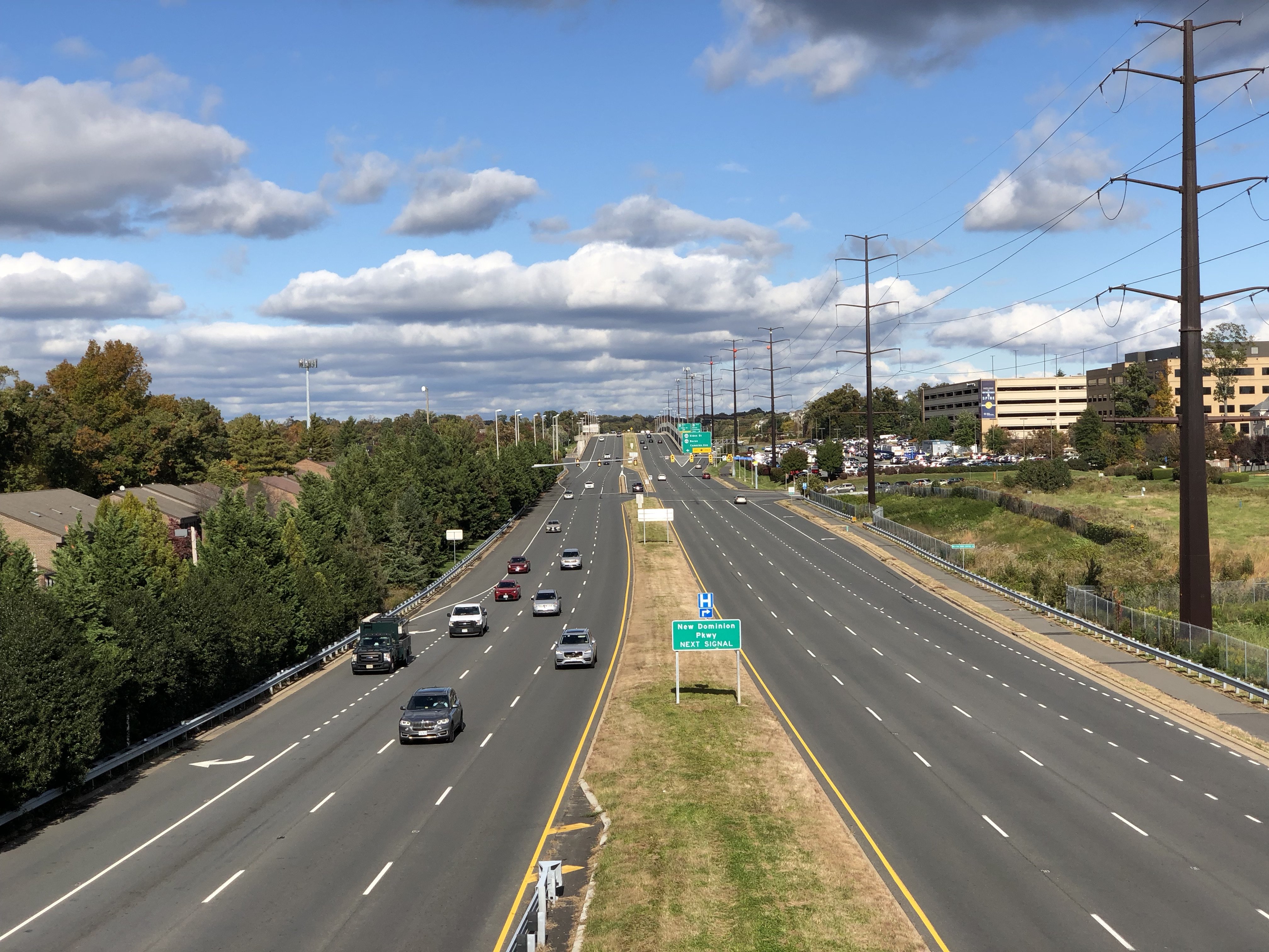 View north along Virginia State Route 286 (Fairfax County Parkway) from the overpass for the Washington and Old Dominion Railroad Trail in Reston, Fairfax County, Virginia